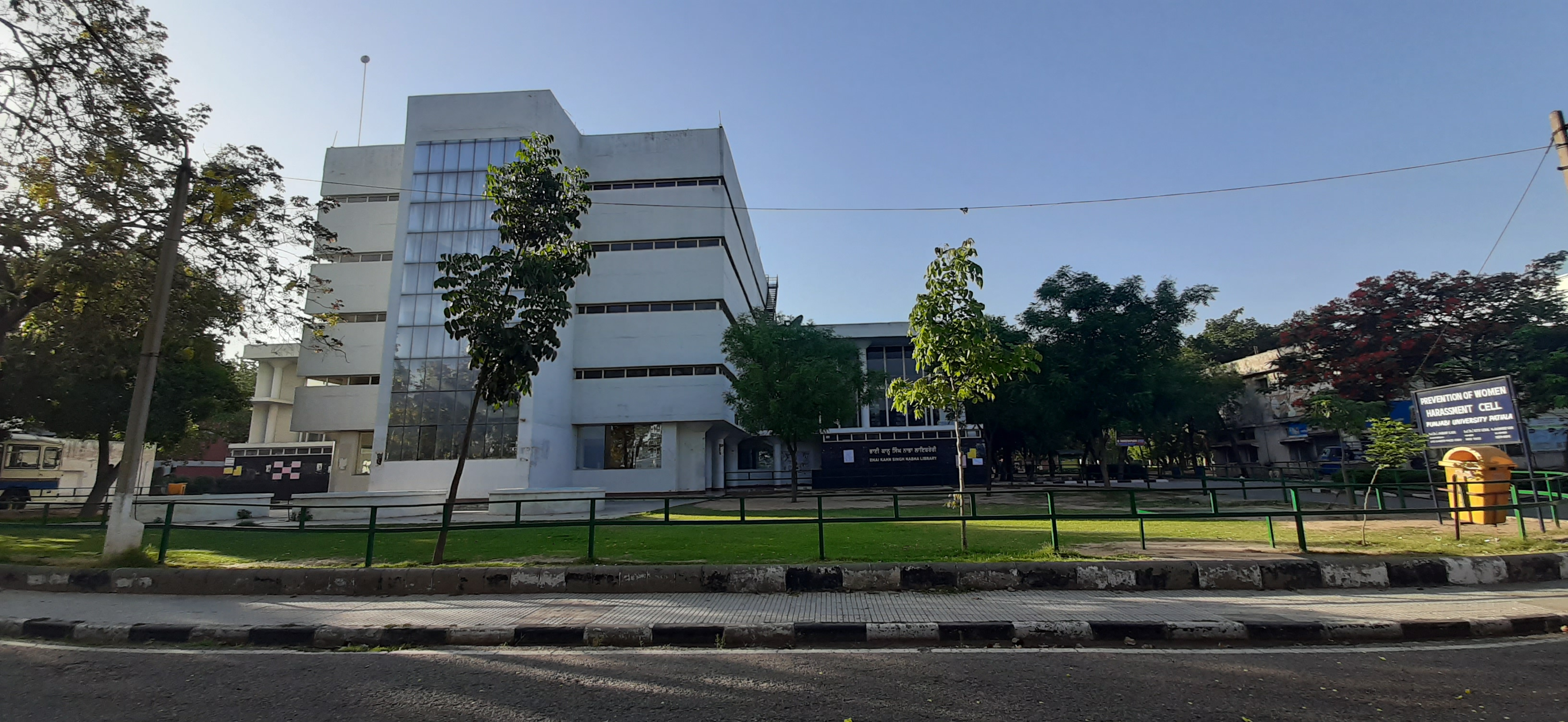 punjabi university , patiala main library Bhai khan singh library